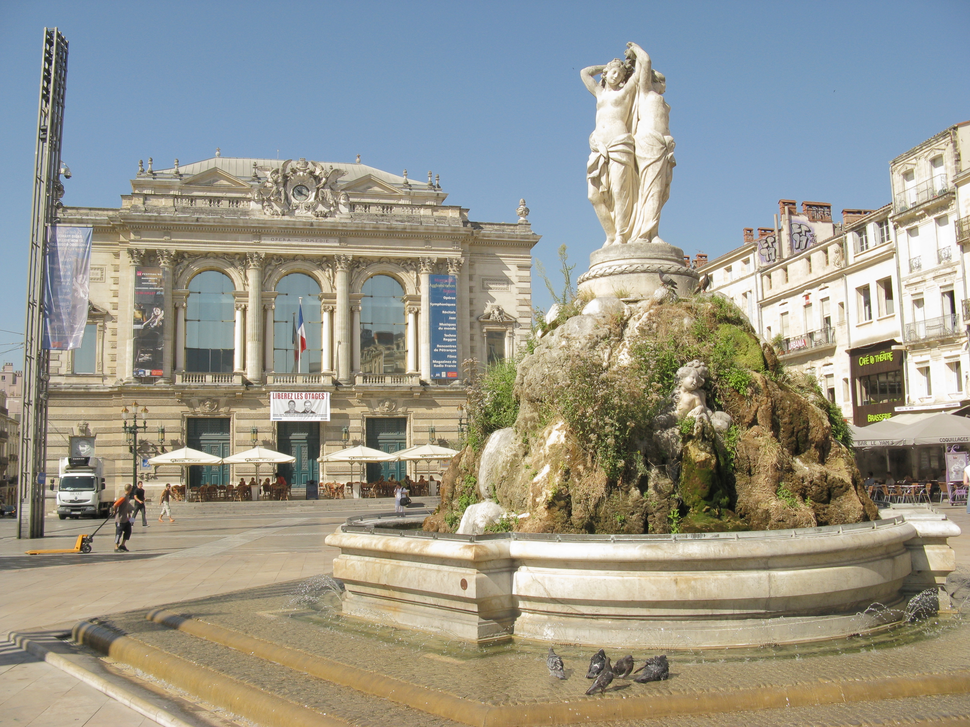 Theatre and fountain in the Place de la Comédie in Montpellier.